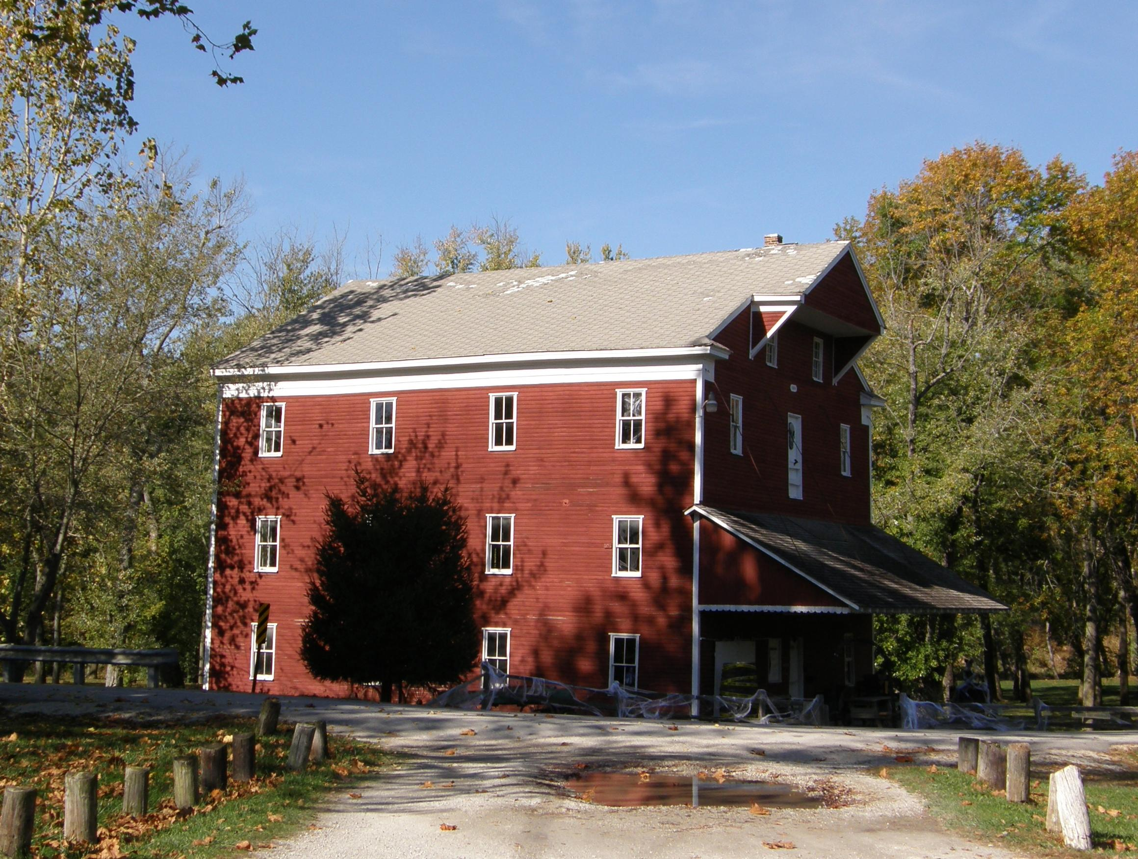 Front of Adams Mill, located off County Road N50E east of Cutler in Carroll County, Indiana, United States. Built in 1845, the mill is listed on the National Register of Historic Places.